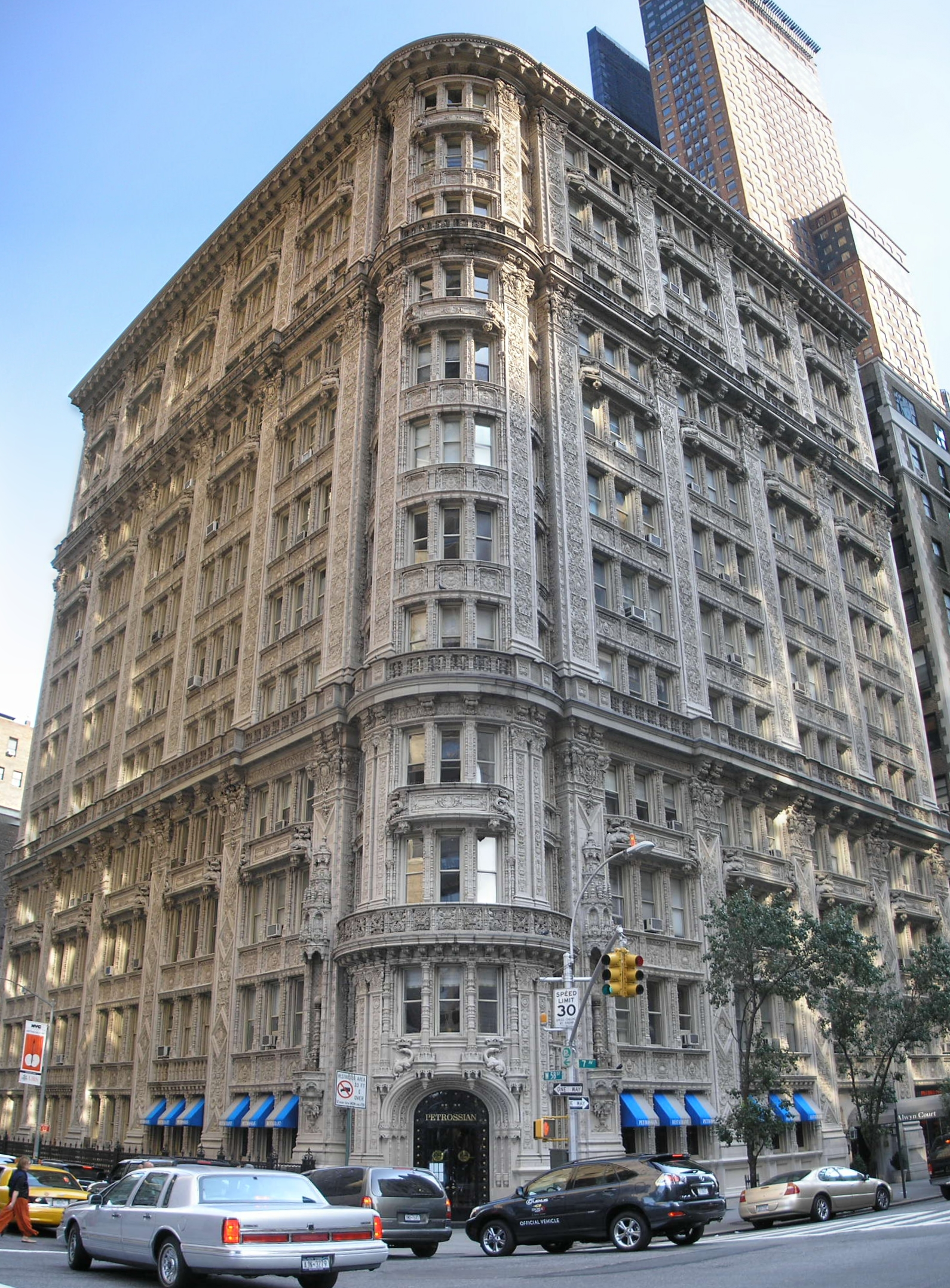 The Alwyn Court, located at 58th Street and Seventh Avenue. Constructed in 1908, it is known for its very lavish exterior.